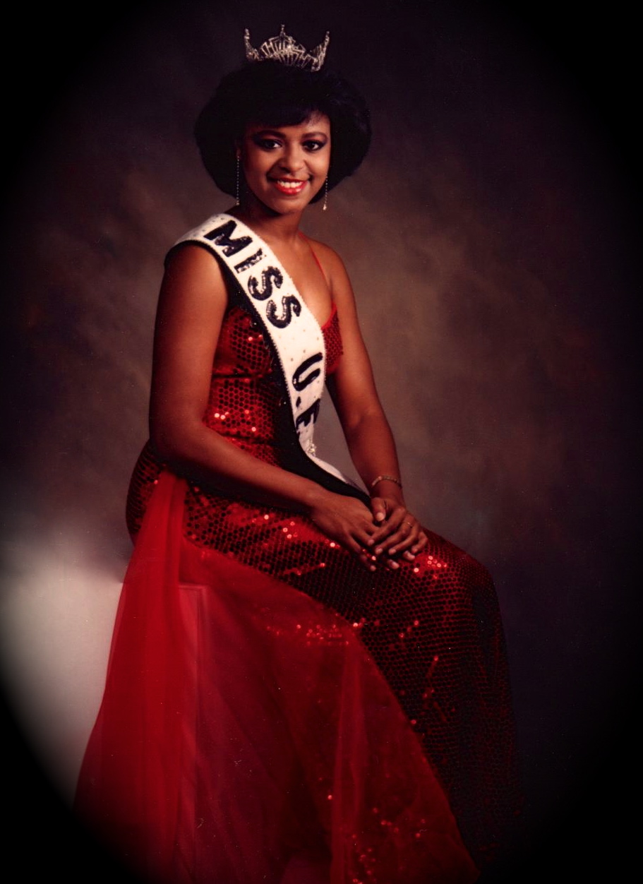 Sharon Johnson Miss UF 1985